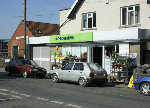 The Co-operative, Coleford Facing Church Street. Next to Coleford Gospel Hall. Opposite the Fish Bar. All you could want for body and soul.